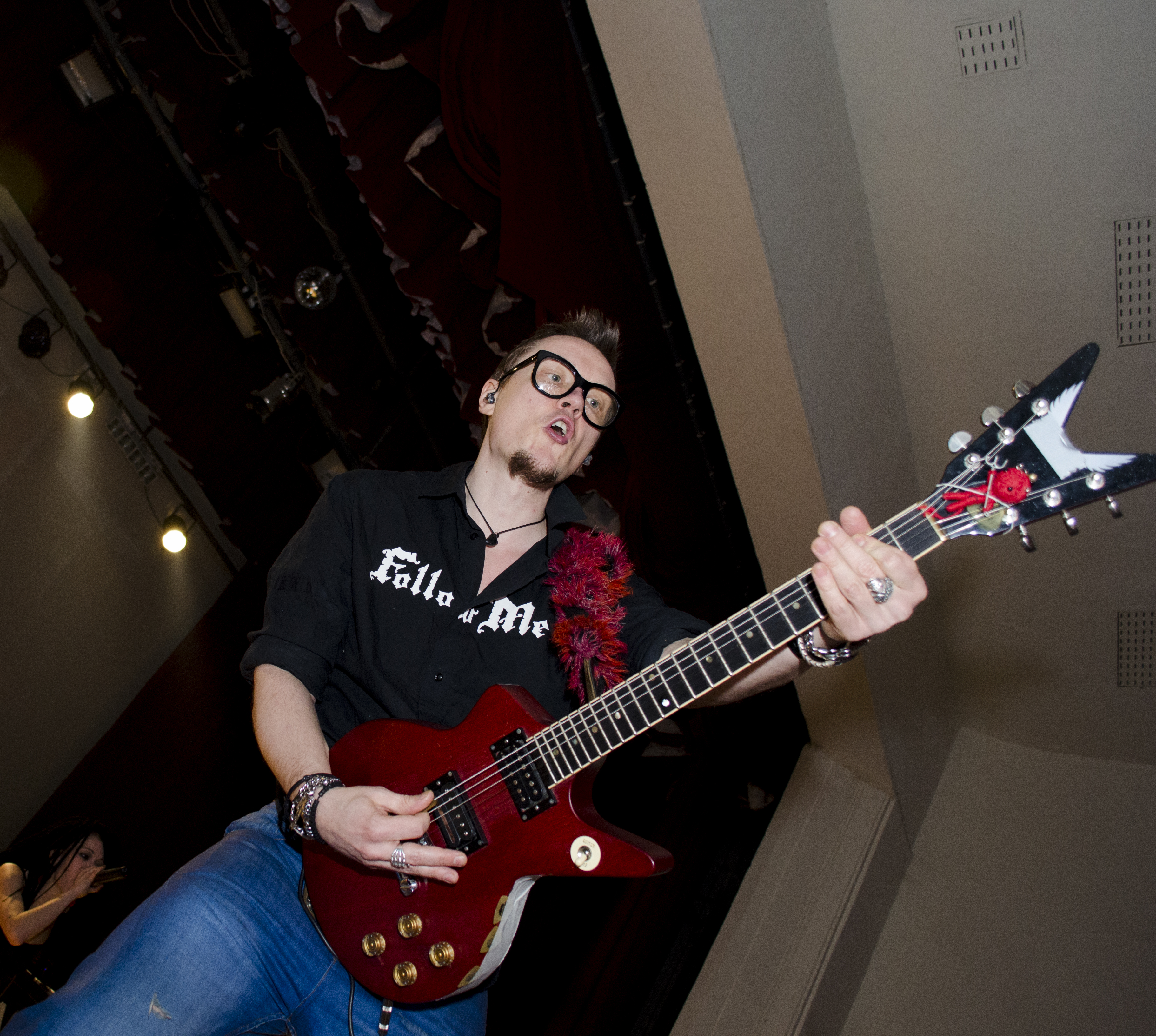 ID. Slot. by Dmitry Galkin